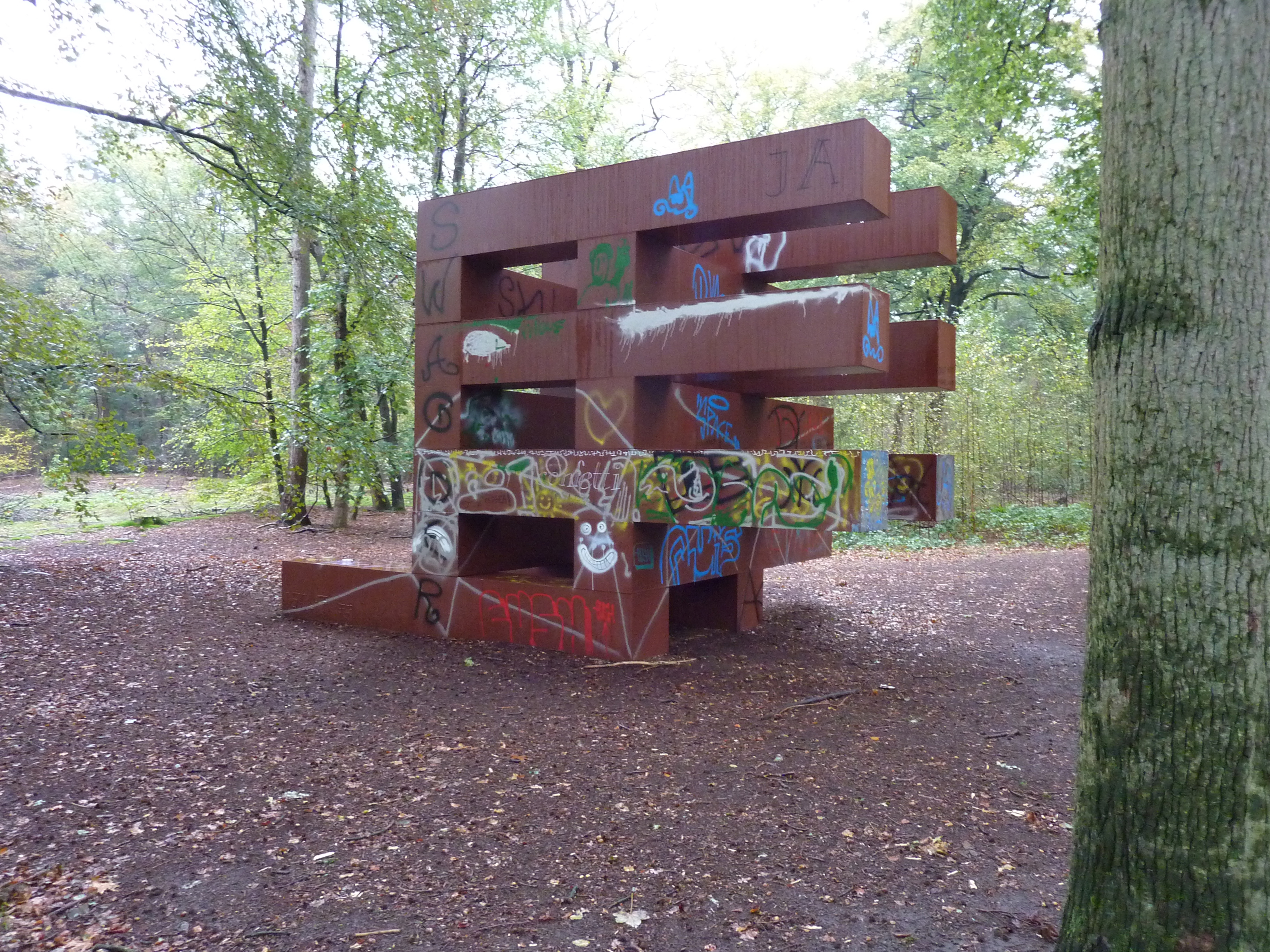 Image of the artist work DSM_IV_TR/Feedface installed at Lustwarande 2011 in Tilburg, Netherlands.